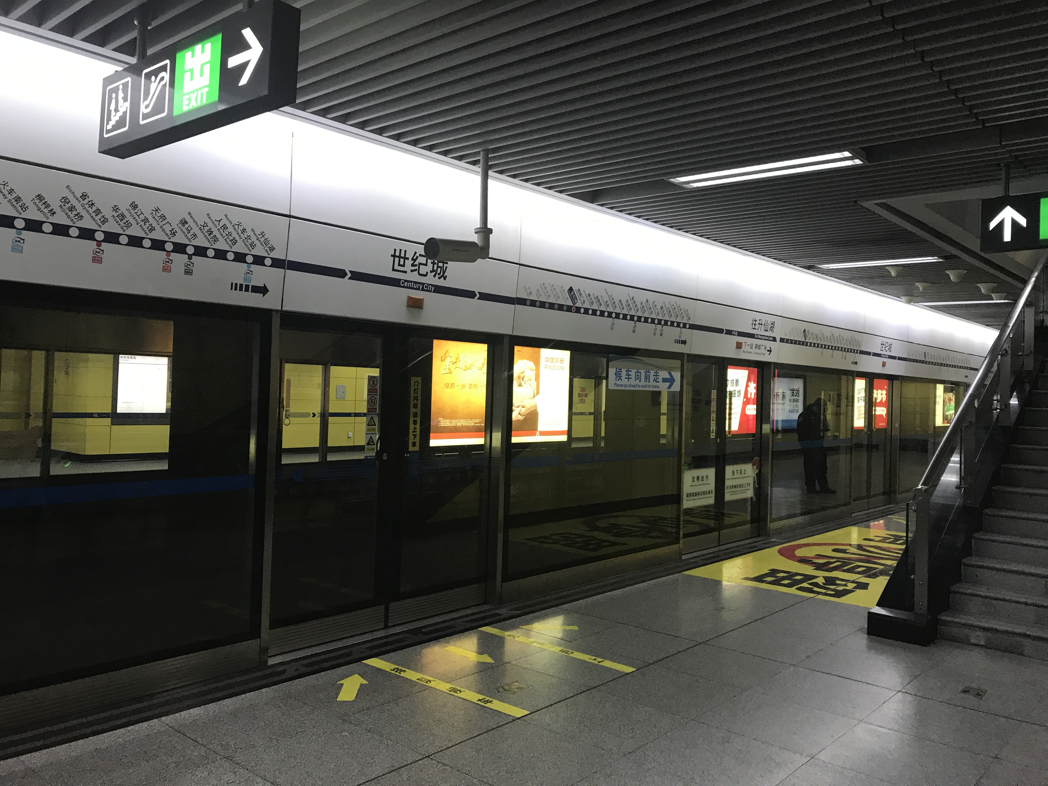 Platform of Line1 in Century City Station, Chengdu Metro